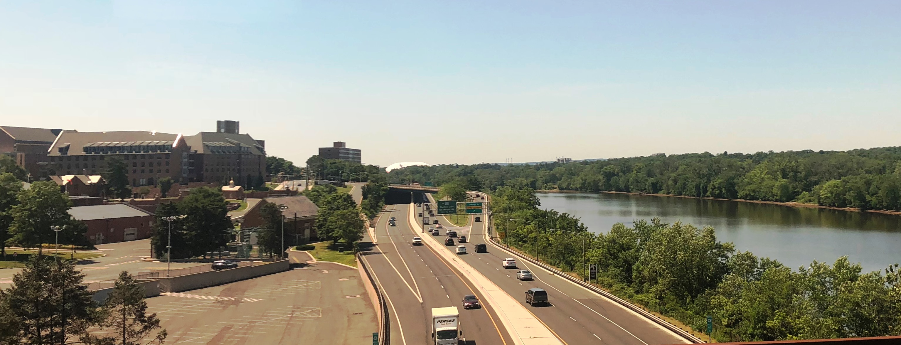 Rutgers University by the Raritan River in New Brunswick, New Jersey.